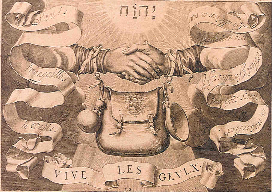 Engraving of the emblem of the Geuzen resistance movement against Philip II of Spain in The Netherlands during the Eighty Years' War. Latin and French text: Saevis tranquillus in undis. Vive les Guelx. (Translation: Calm in the midst of wild waves. Long live the Geux.)